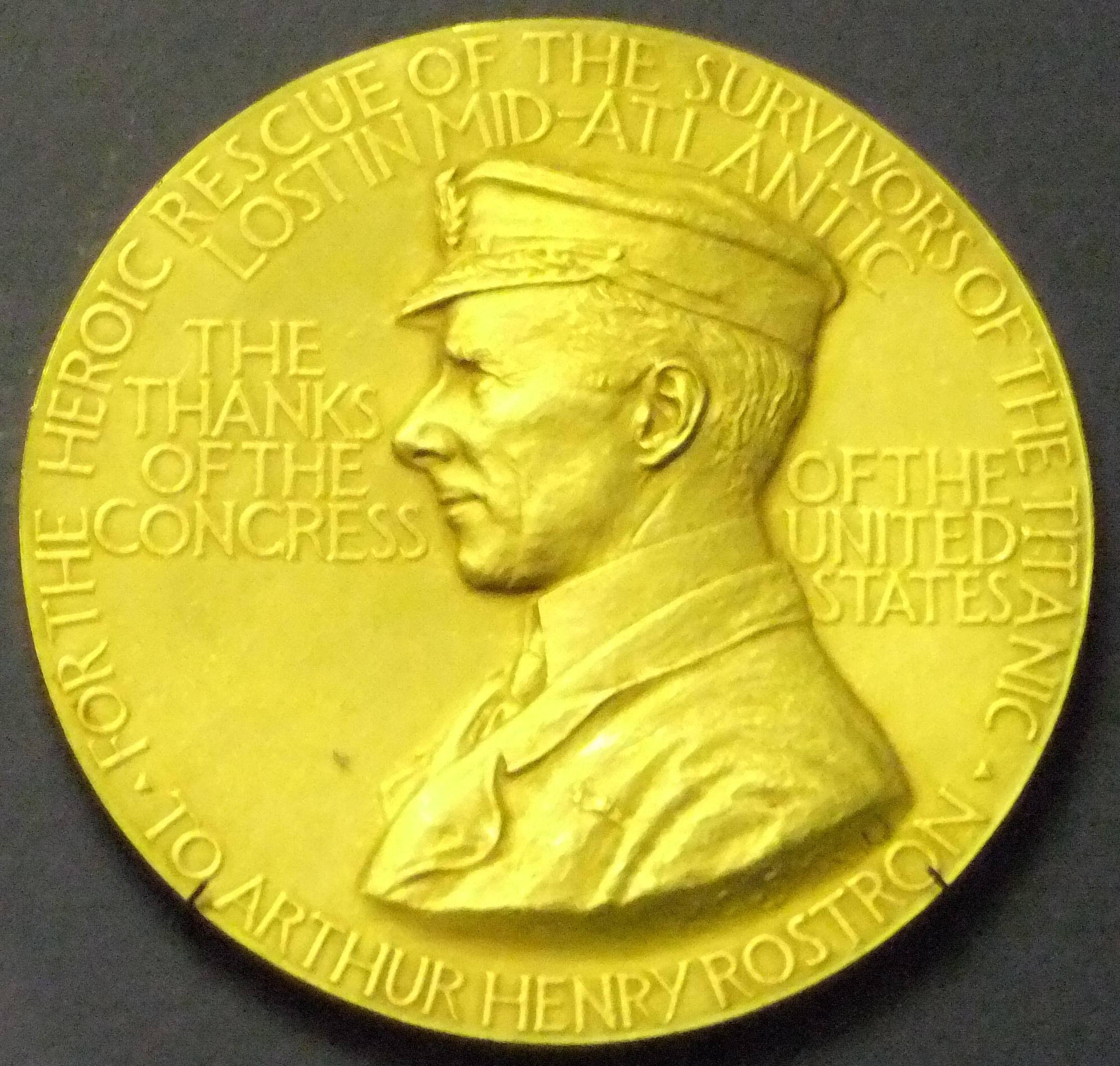 Congressional Gold Medal awarded to Sir Arthur Henry Rostron for his efforts in rescuing survivors of the Titanic disaster. On display at the Merseyside Maritime Museum, Liverpool, England.